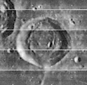 Sabine lunar crater - image LOIV-085-h1